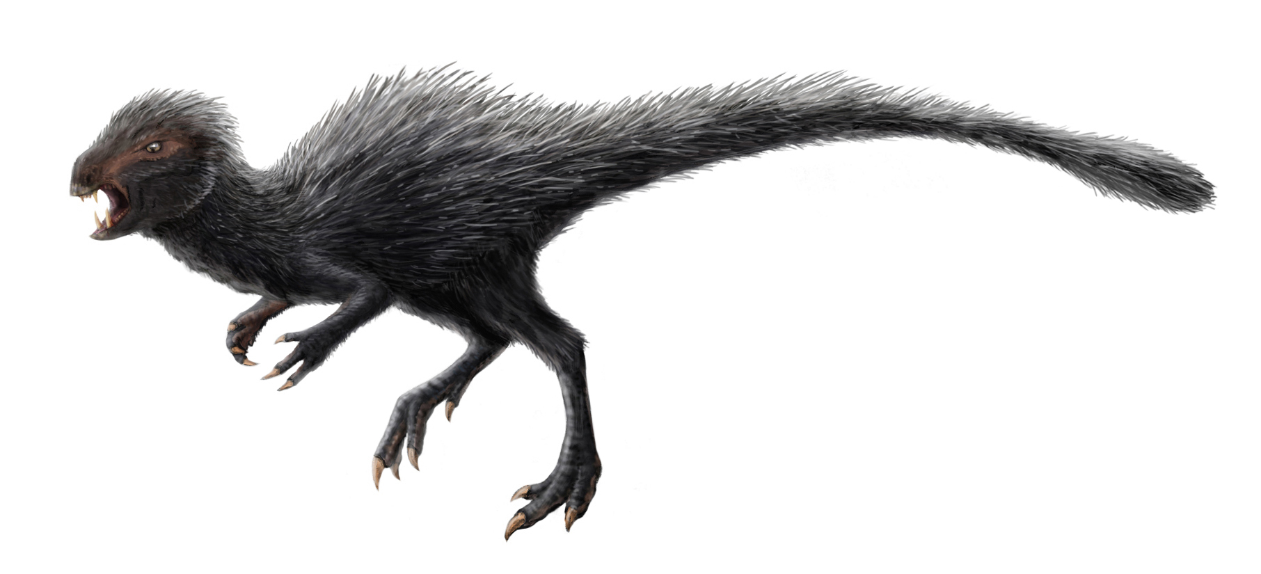 Heterodontosaurus tucki Life restoration. Integument based on the related Tianyulong, proportions based on photos of specimen SAM-PK-K1332 and skeletal reconstruction by Gregory S. Paul (The Princeton Field Guide to Dinosaurs, 2010, p. 240).